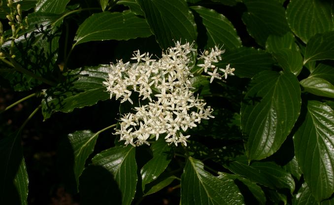 Cornus controversa: Flowers and foliage